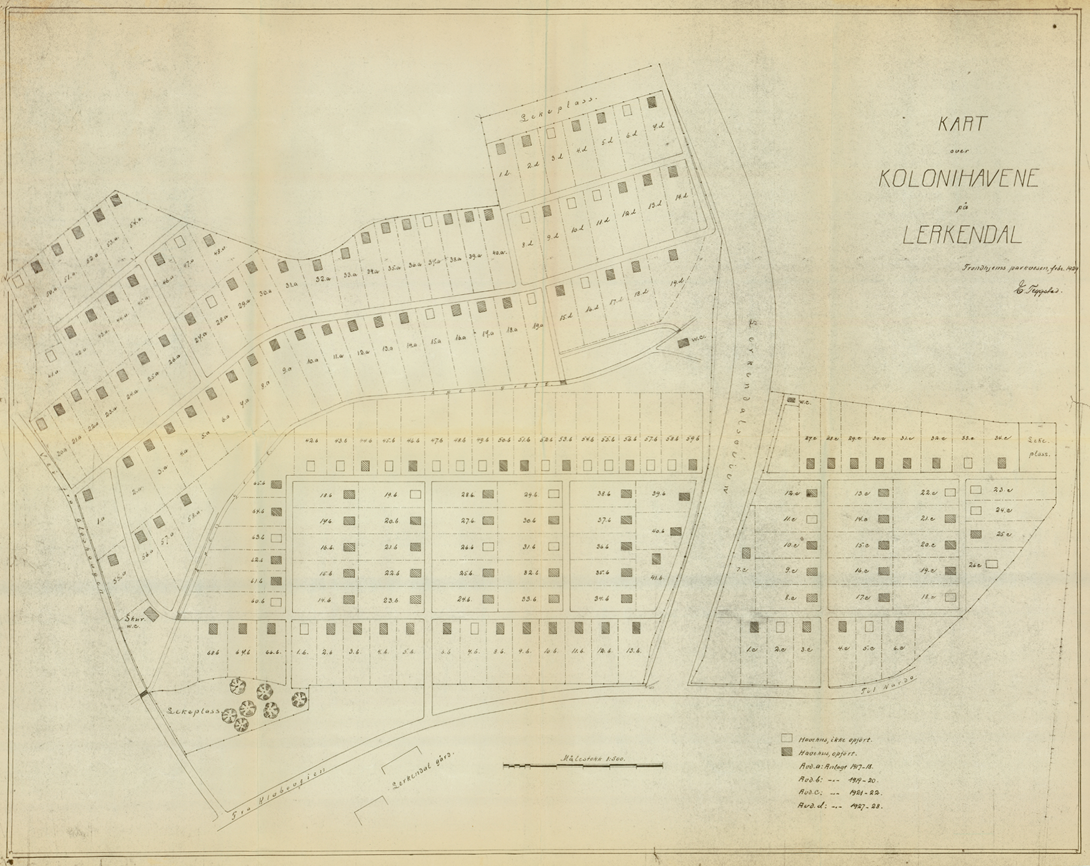 Area development plan for Lerkendal hagekoloni, an allotment in Trondheim, Norway, that existed 1919–1959